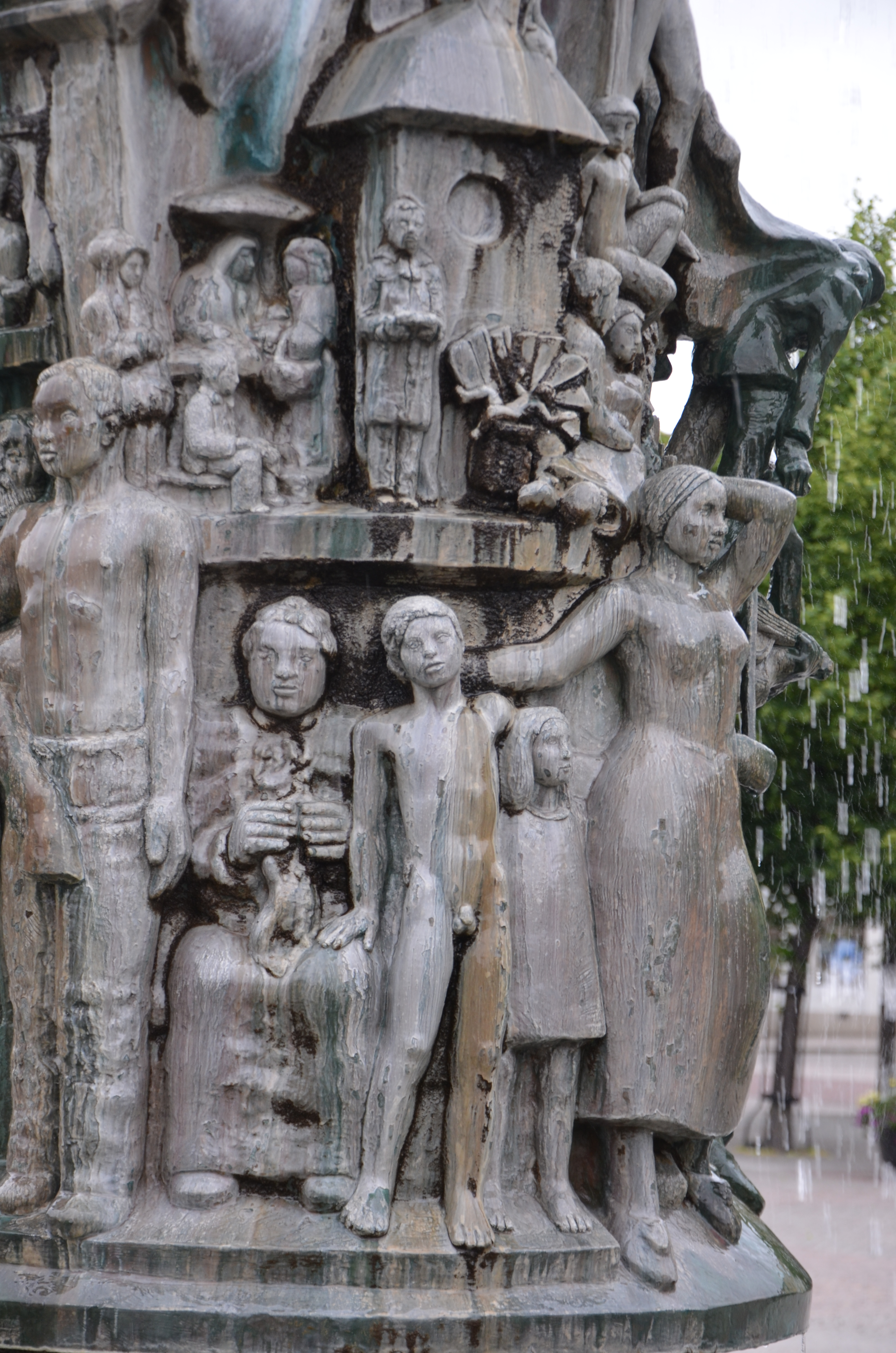 Nils Sjögrens De fyra elementens brunn på Stora torget i Enköping, Detalj södra sidan.